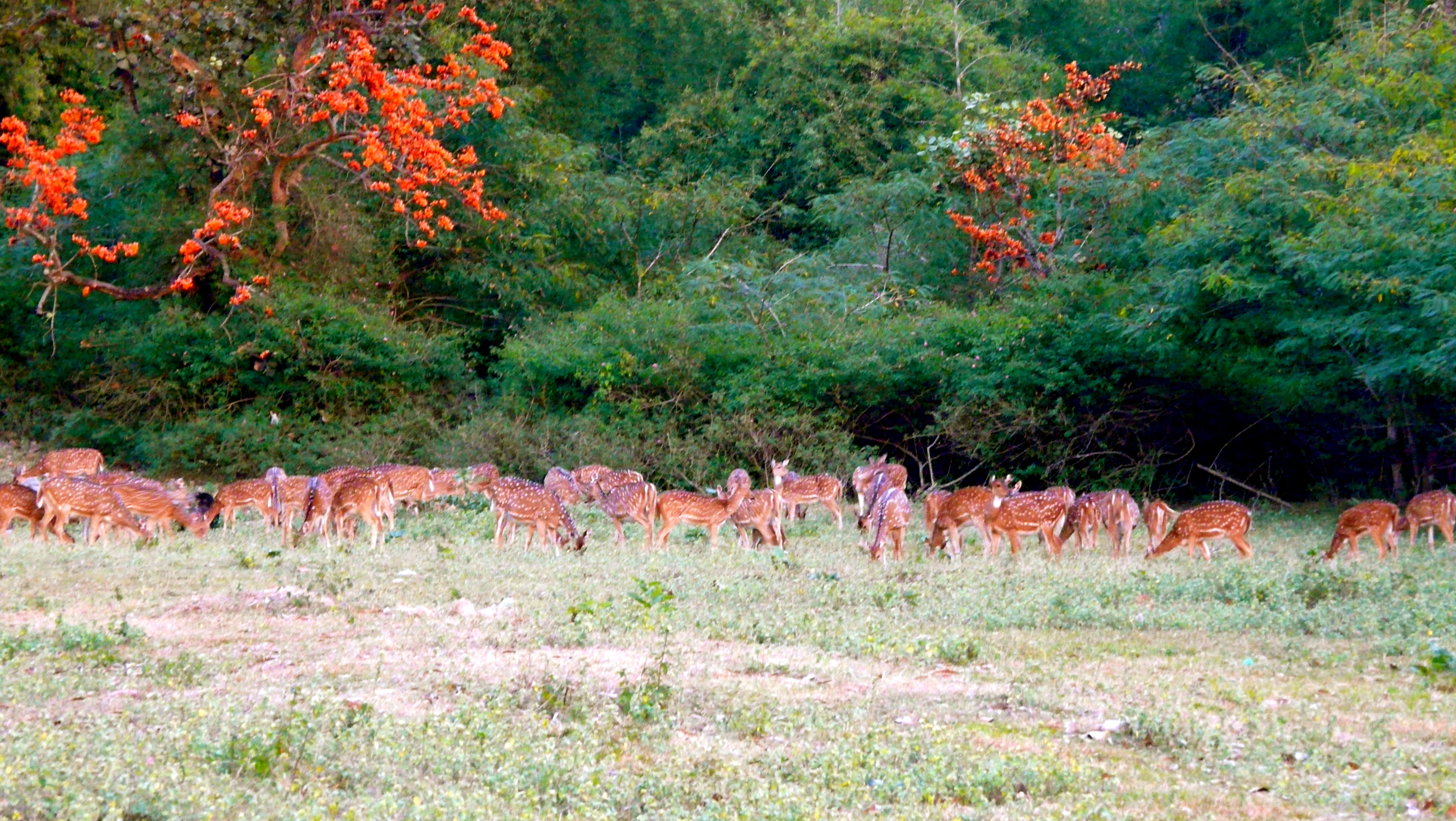 National Reserve TN India